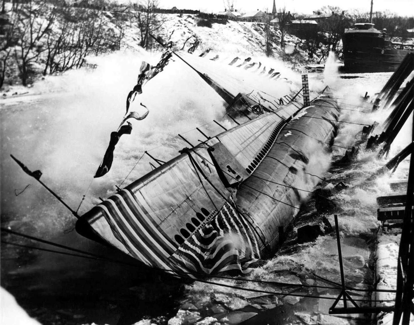 USS_Hawkbill; Hawkbill (SS-366) splashes into the waters of the Manitowoc River at Manitowoc Shipbuilding Co., Manitowoc, WI., 9 January 1944. USN photo courtesy of .